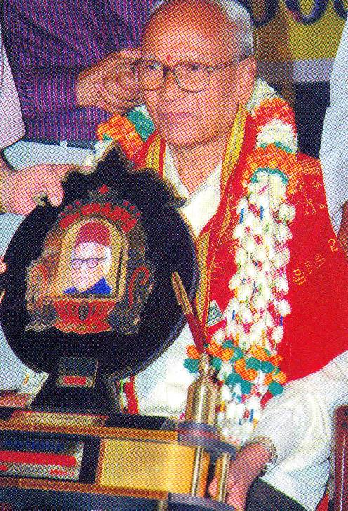 T. V. Venkatachala Sastry receiving the Maasti Award (1996)